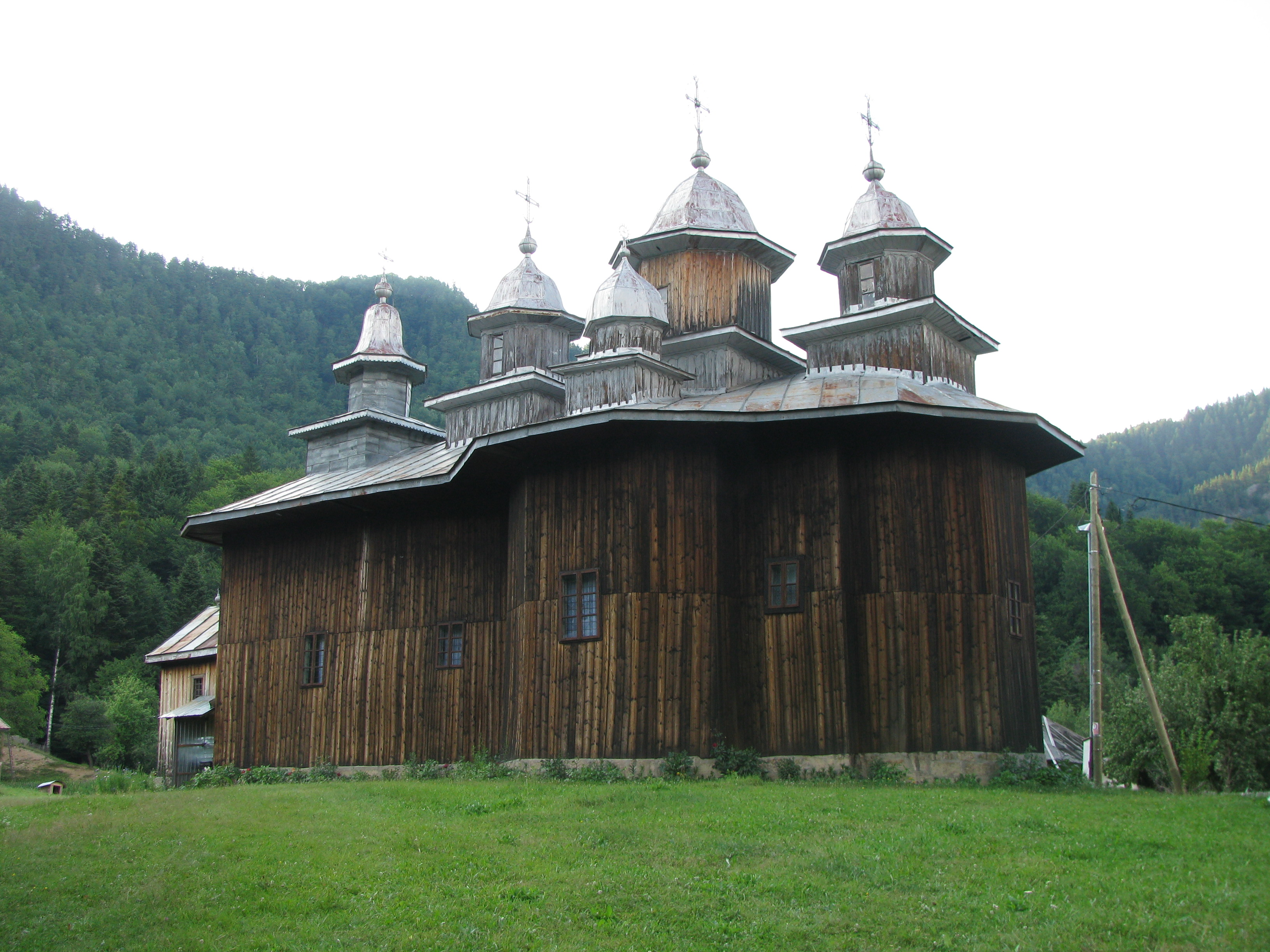 Wooden church "Adormirea Maicii Domnului" from Găvanu village, Mânzăleşti commune, Buzău county, Romania